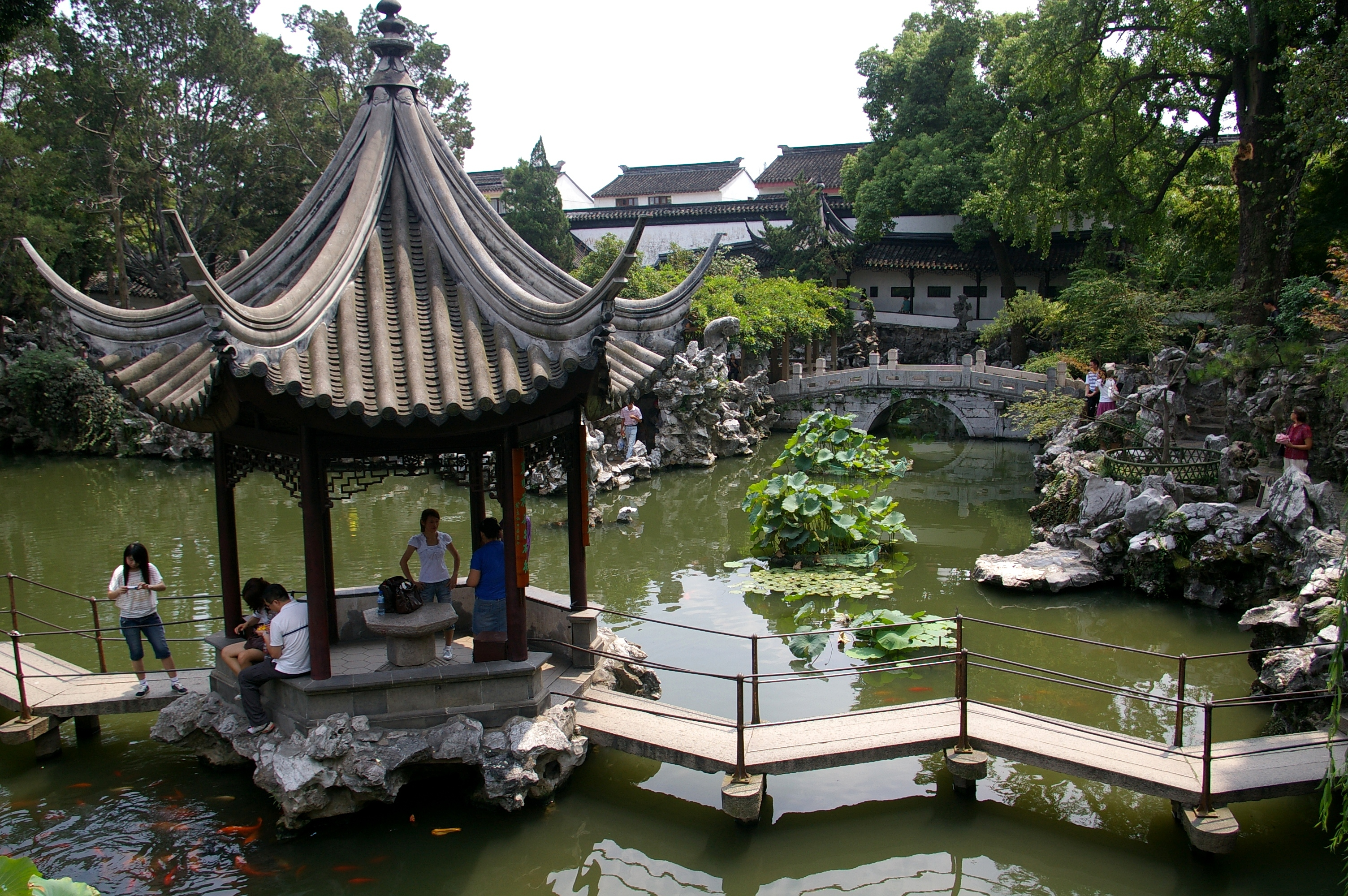 Lion Grove Garden in Suzhou